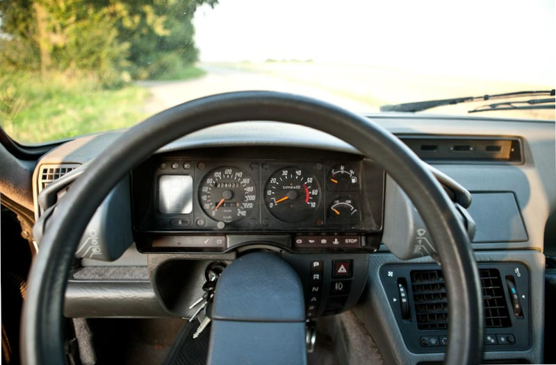 Citroen CX car dashboard